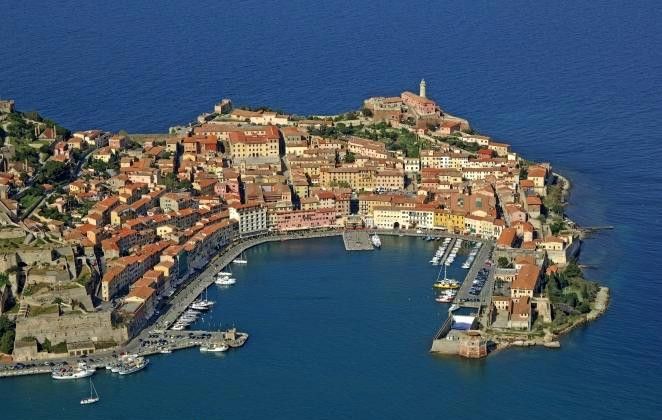 Elba Island